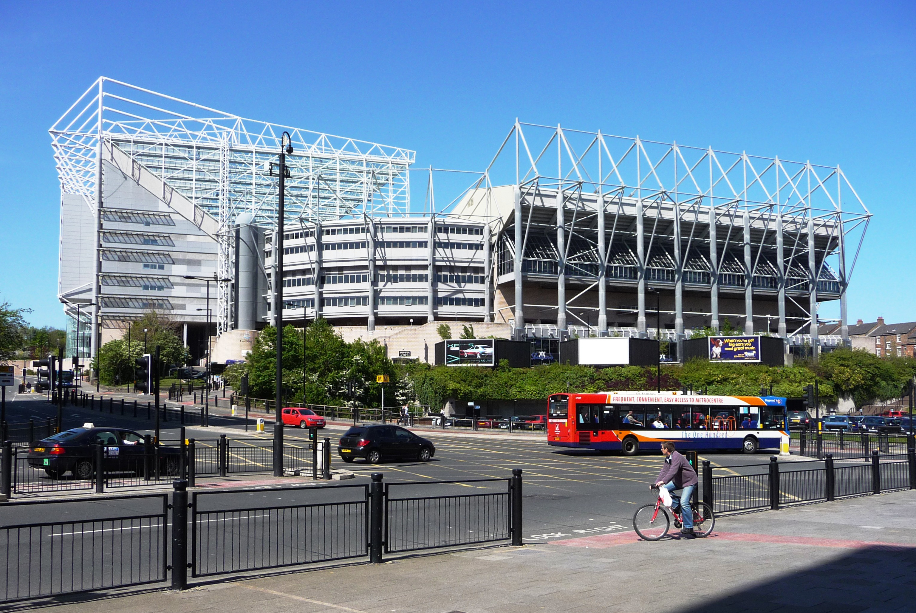 St James' Park football stadium, south west corner. On the left is the main stand, The Milburn Stand, and on the right is the south stand, The Gallowgate End.